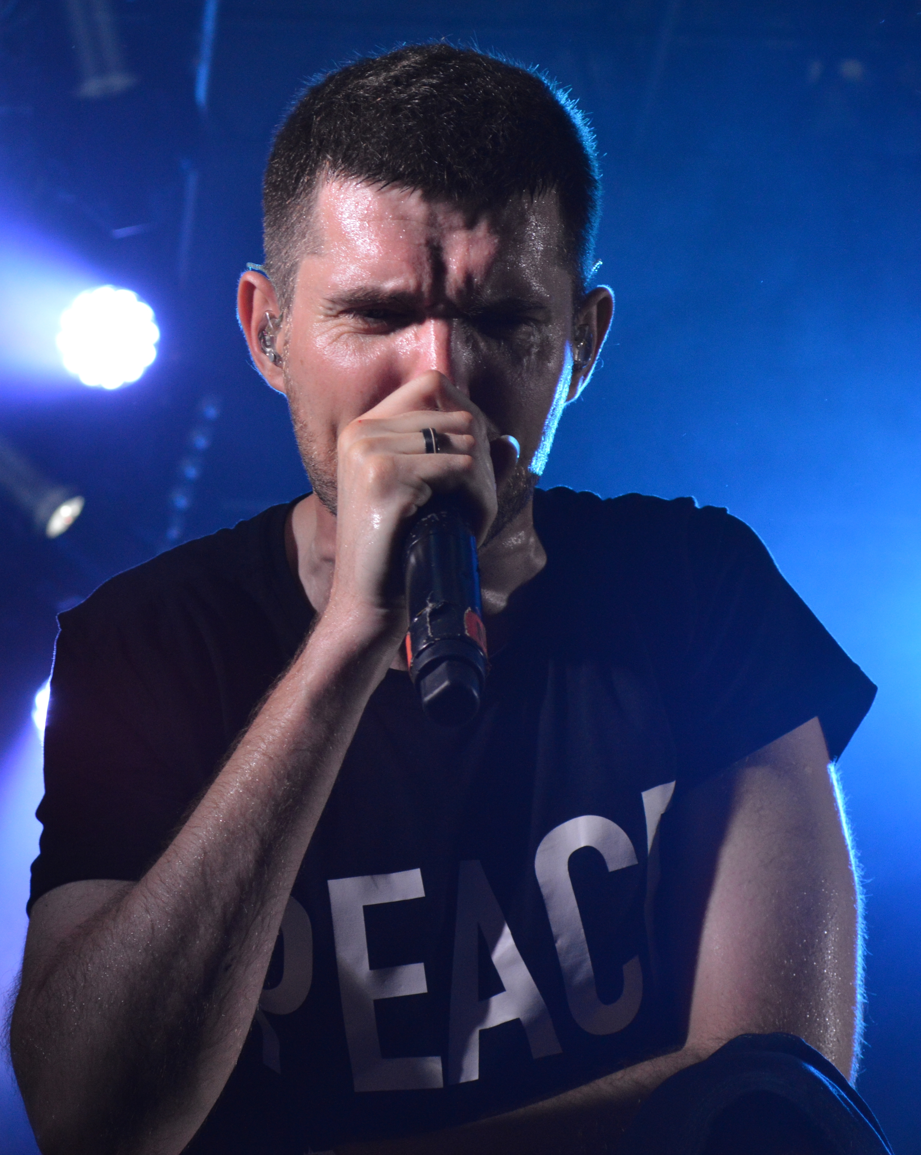 Russian musician Noize MC at the 2018 MRPL City Festival.